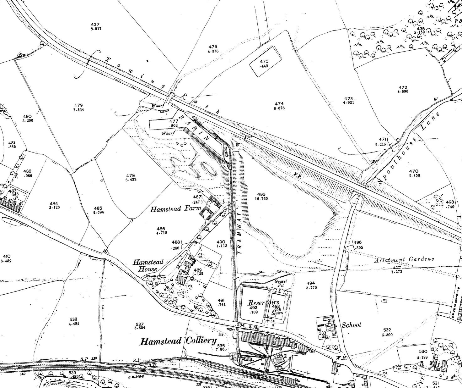 Old OS map of Hamstead Colliery and canal wharf on the Tame Valley Canal in England.